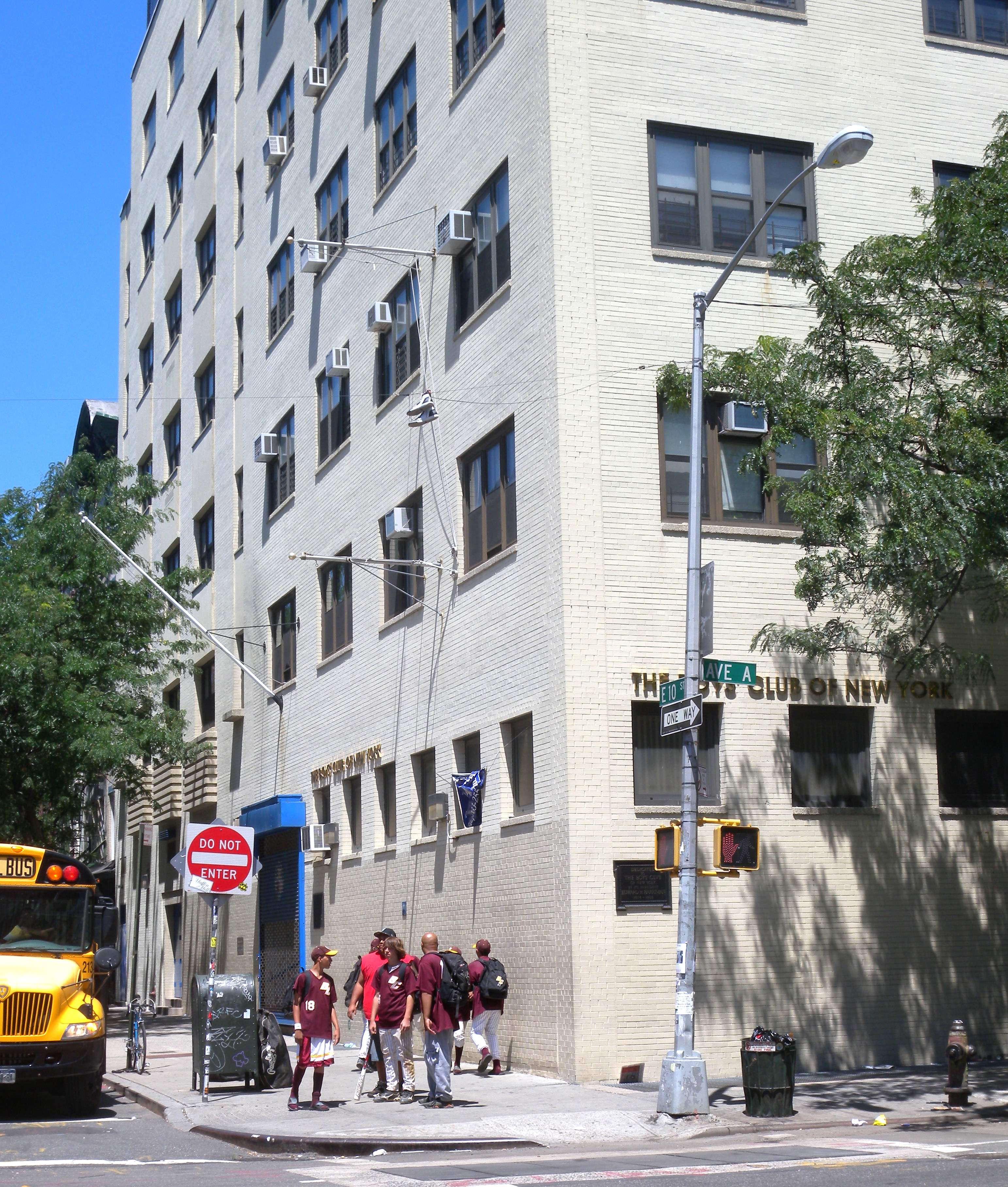 Looking northwest across Avenue A on East 10th Street, at Boys Club of New York on a sunny midday.